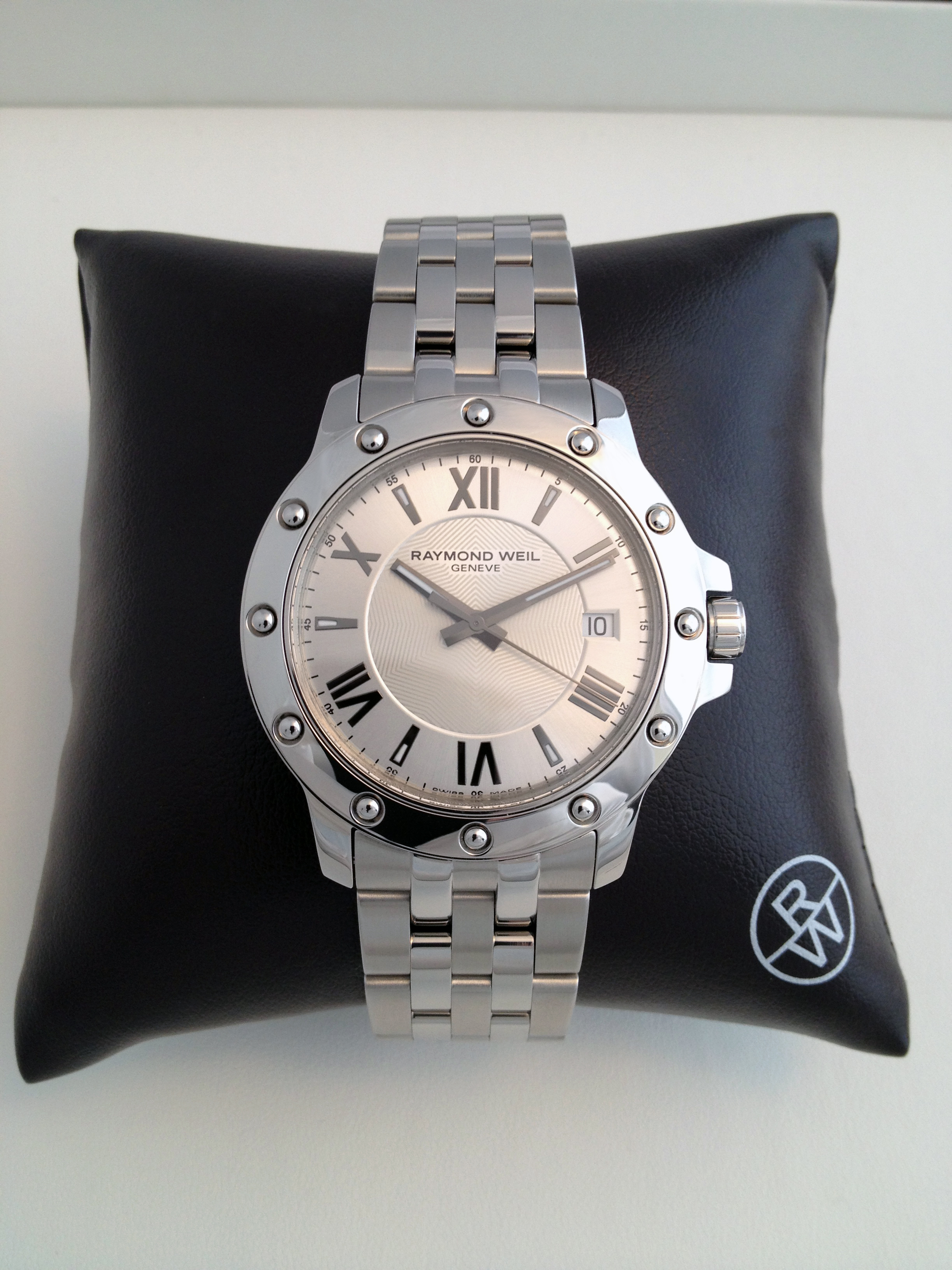 Tango 5599-st-00659 - Dial - Steel on steel silver dial black Roman numerals